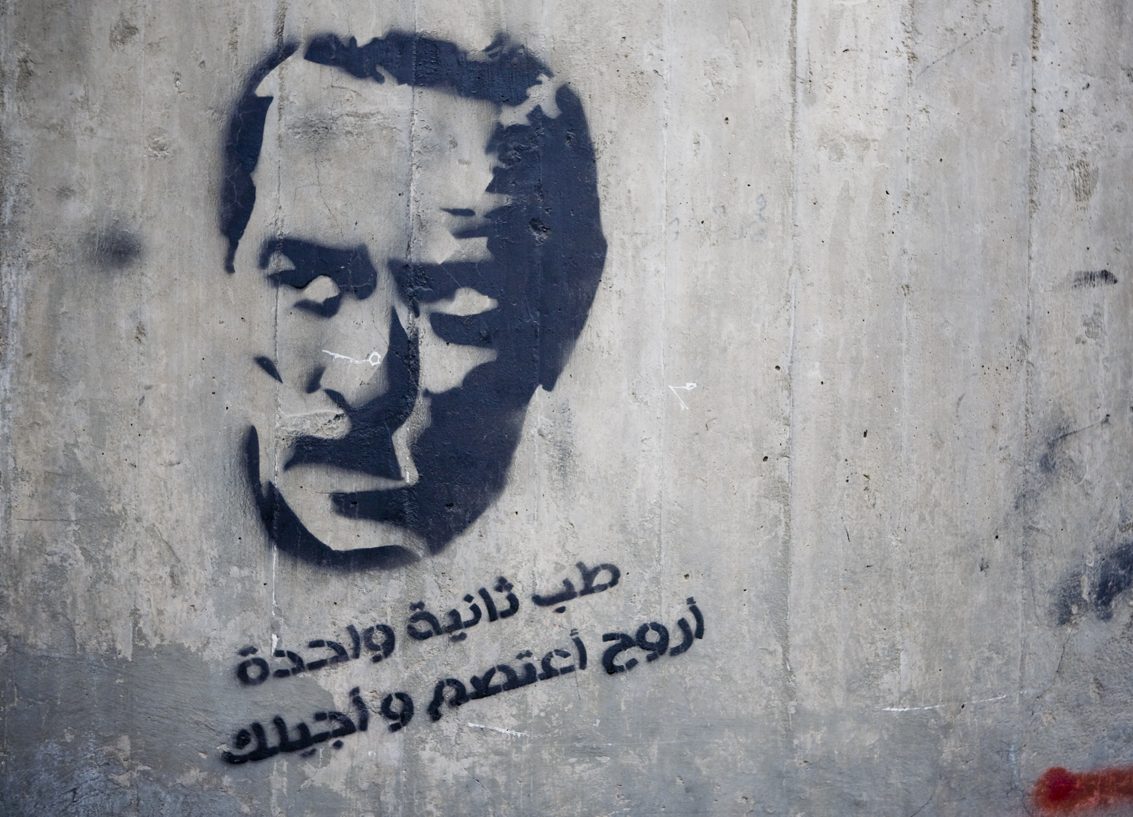 Graffiti at Youssef el-Guindi Street, downtown Cairo.